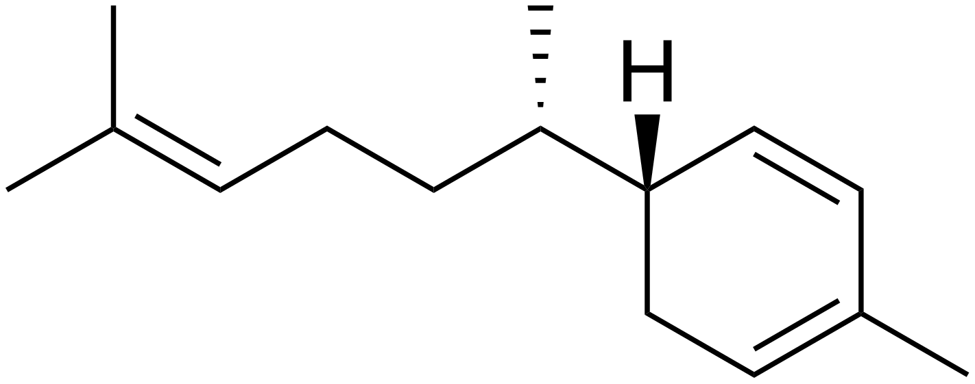 chemical structure of zingiberene